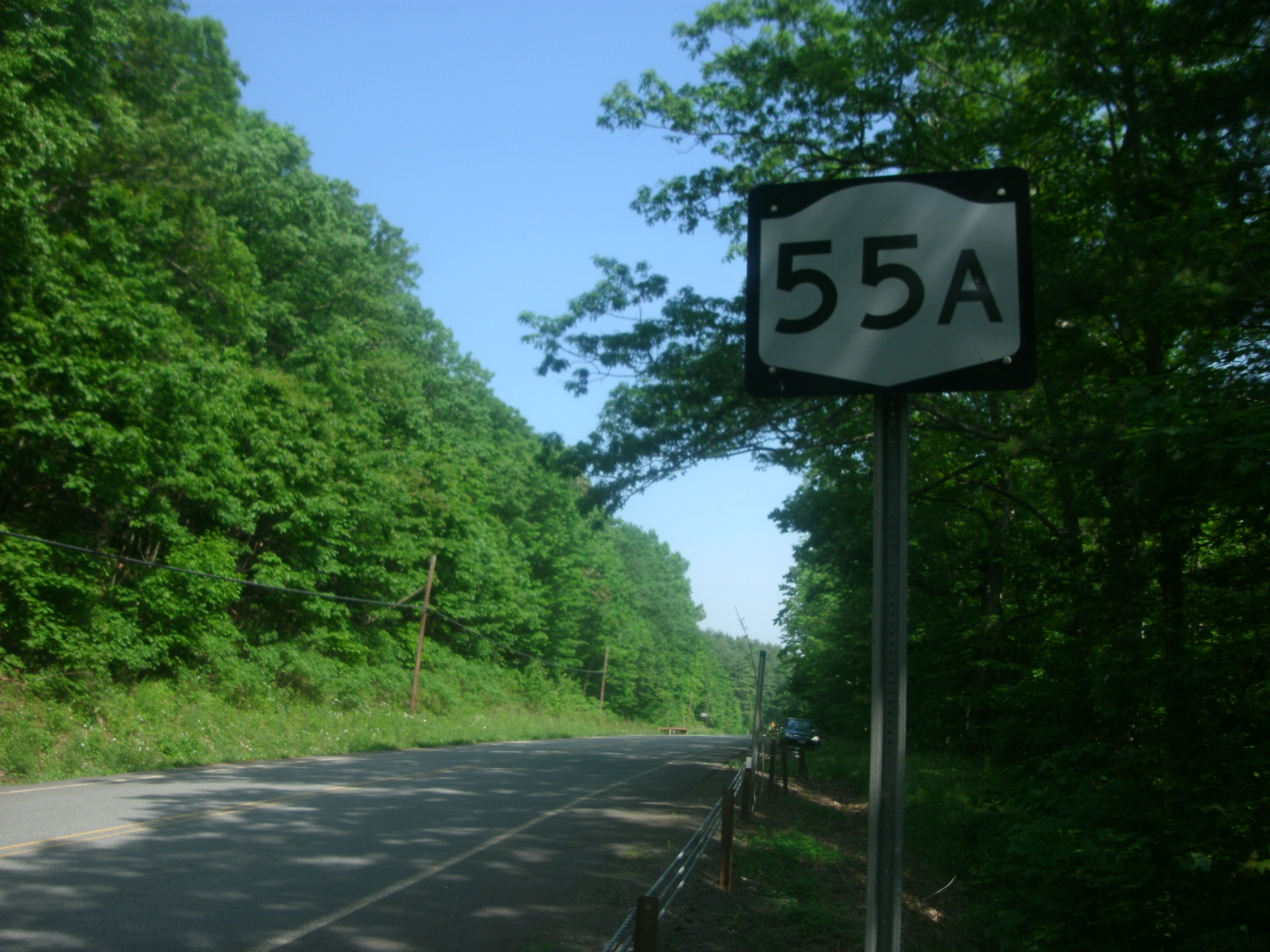 New York State Route 55A eastbound in Wawarsing, New York.